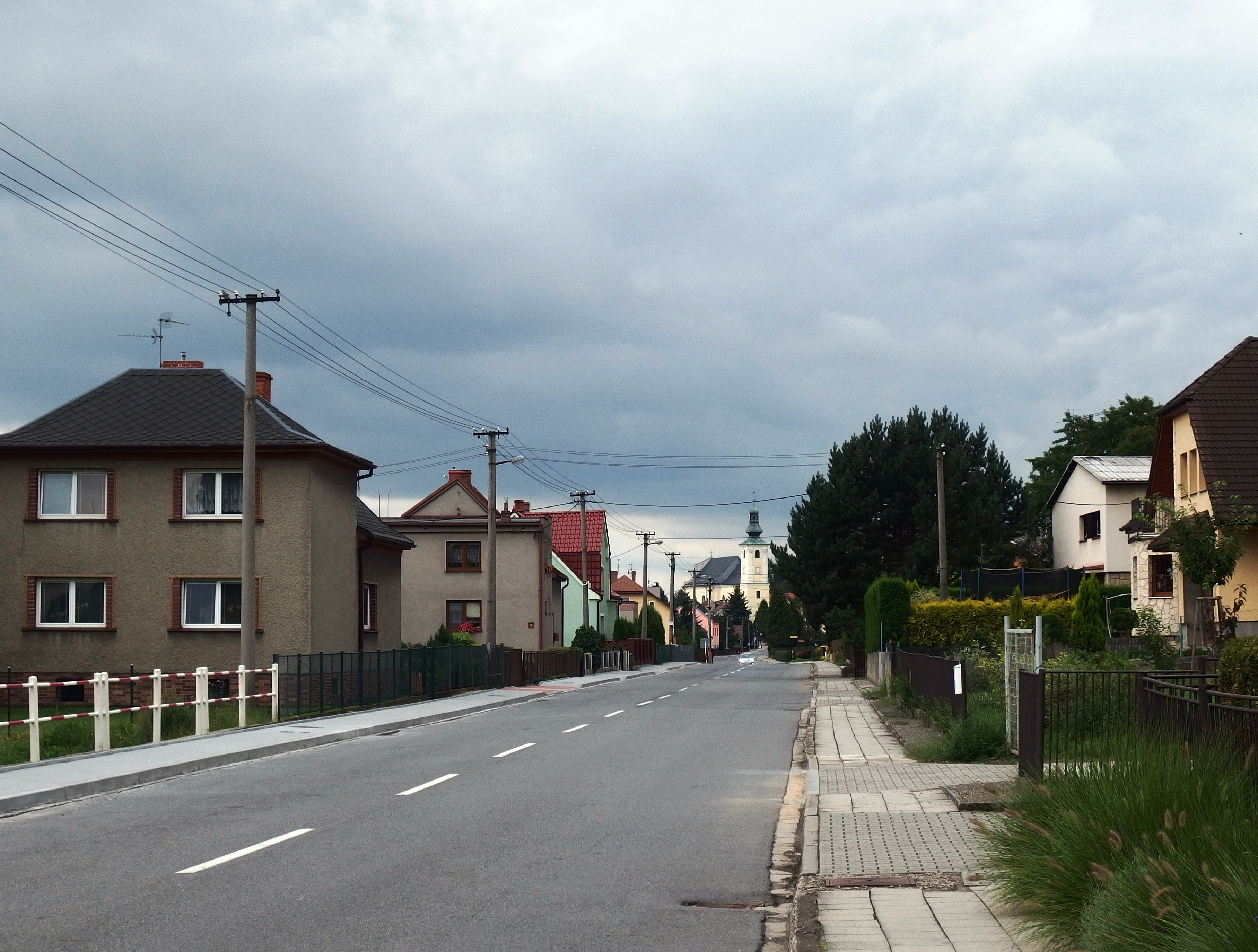 Bohuslavice, Opava District, Czech Republic.